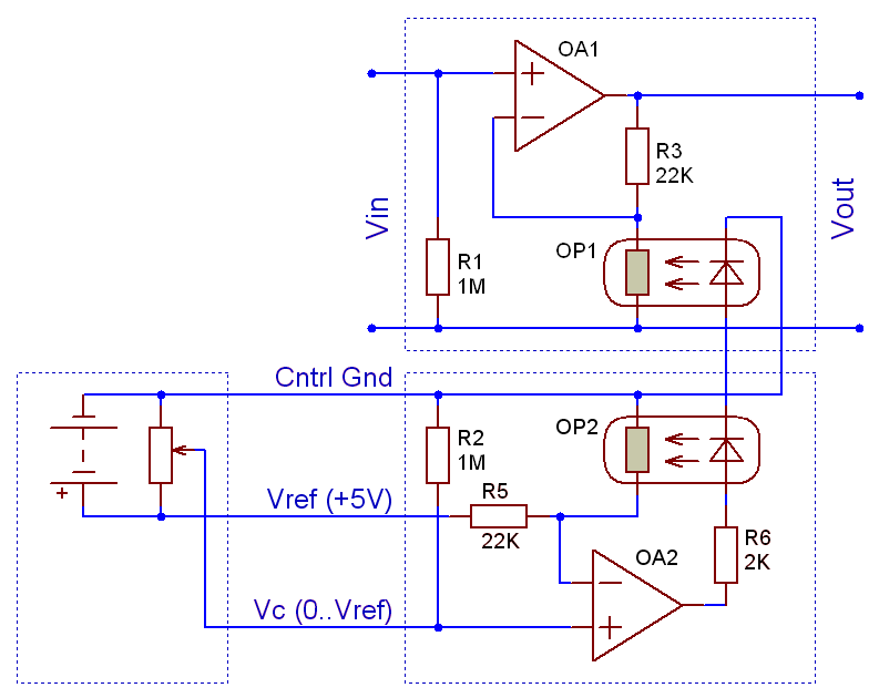 Vactrol-based, remote-controlled variable gain amplifier with an inverse control law: V out = V in / (V c / Vref). Based on PerkinElmer (2001). Photoconductive Cells and Analog Optoisolators (Vactrols®). page 66. I regrouped the components to show split audio and control grounds.